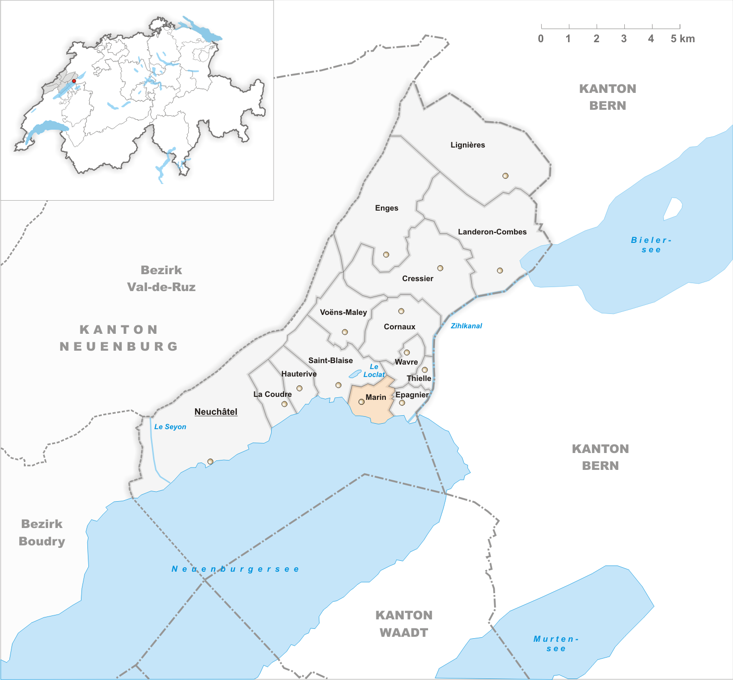 Municipality Marin Artist: Tschubby